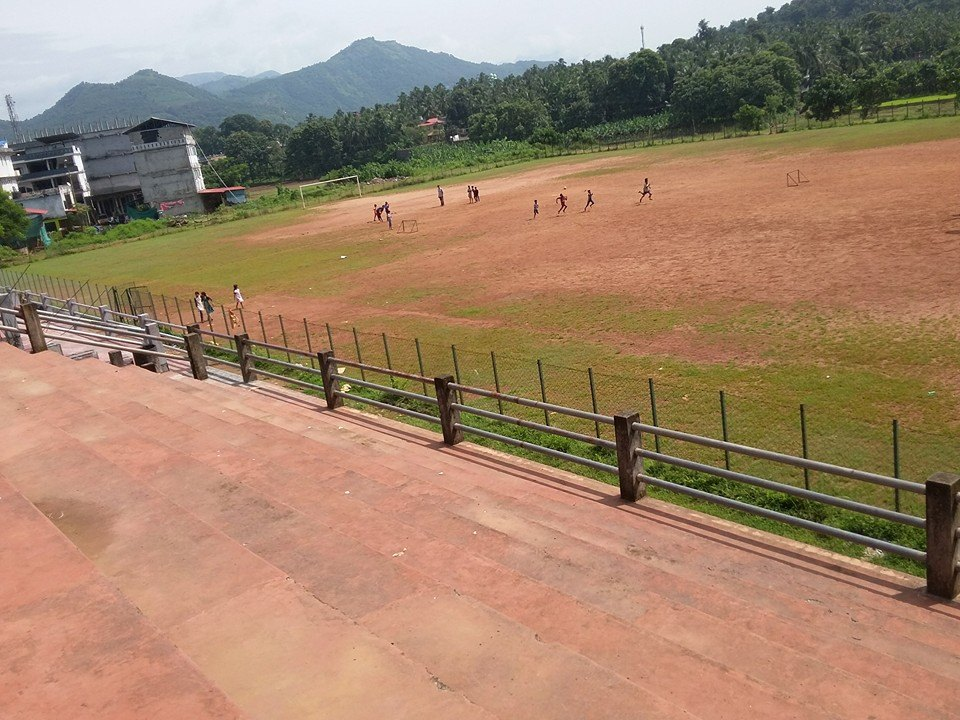 Seethi Haji Stadium Edavanna